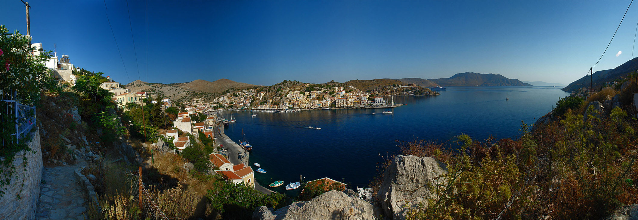 A panorama view of the harbor of Symi, Island of Symi, Greece